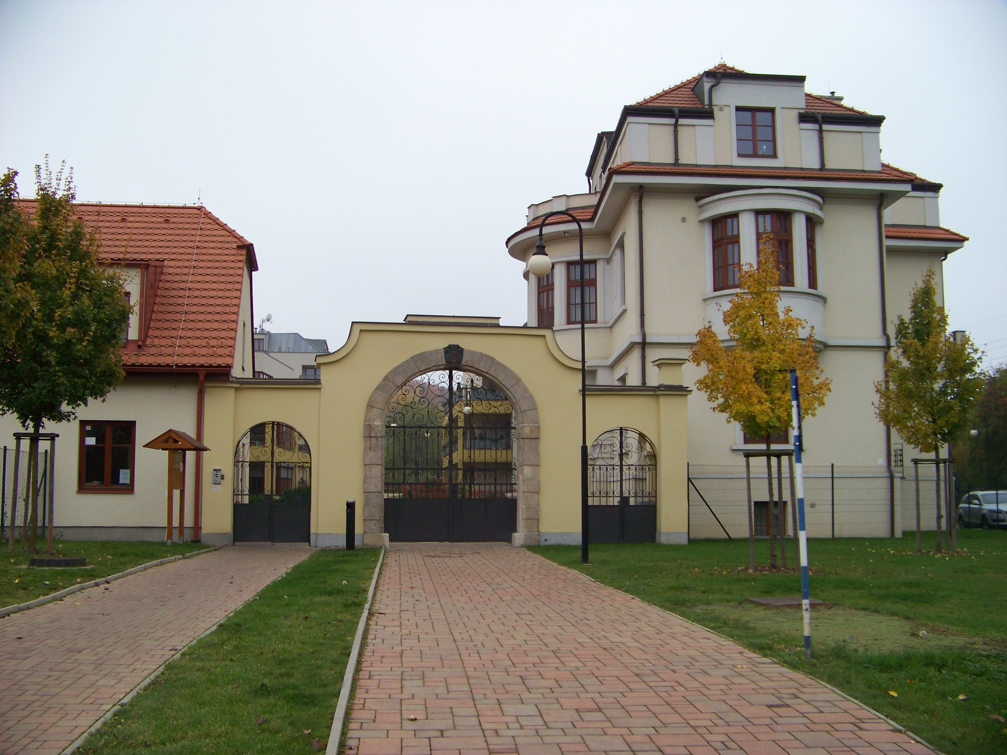 Prague-Hloubětín, the Czech Republic. K náhonu street, Kejř Mill.